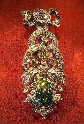 Picture of the unique diamond made in December 2016